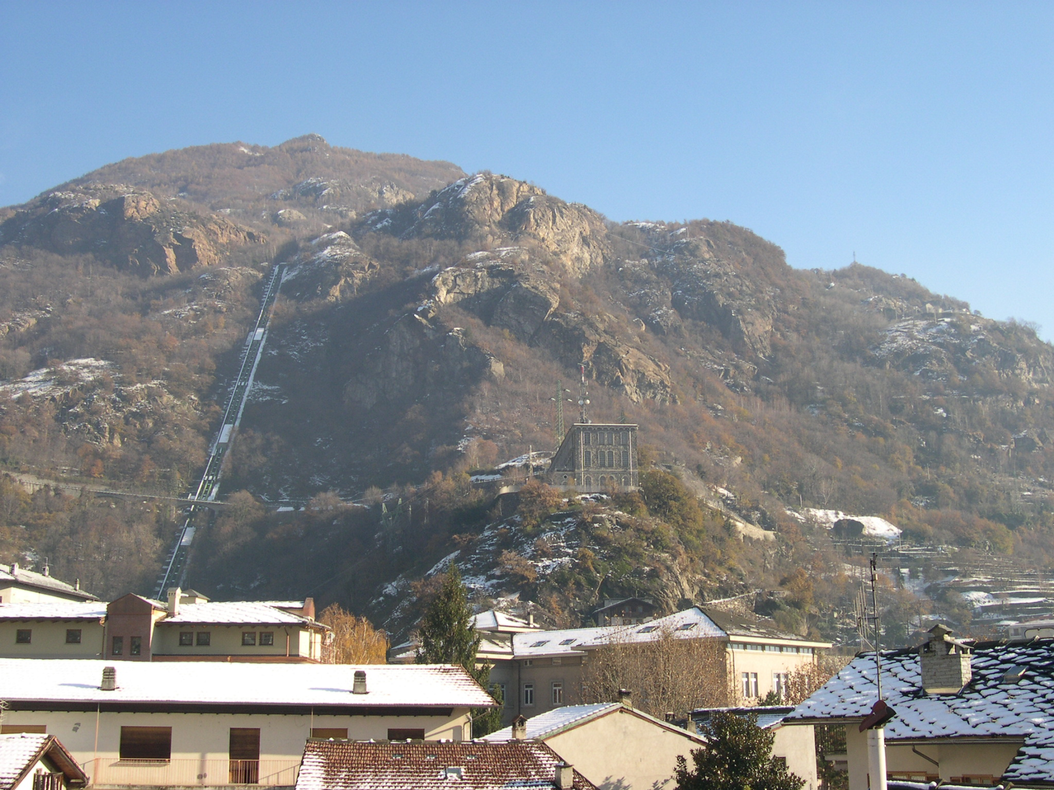 General view of the city of Pont-Saint-Martin (Italy).